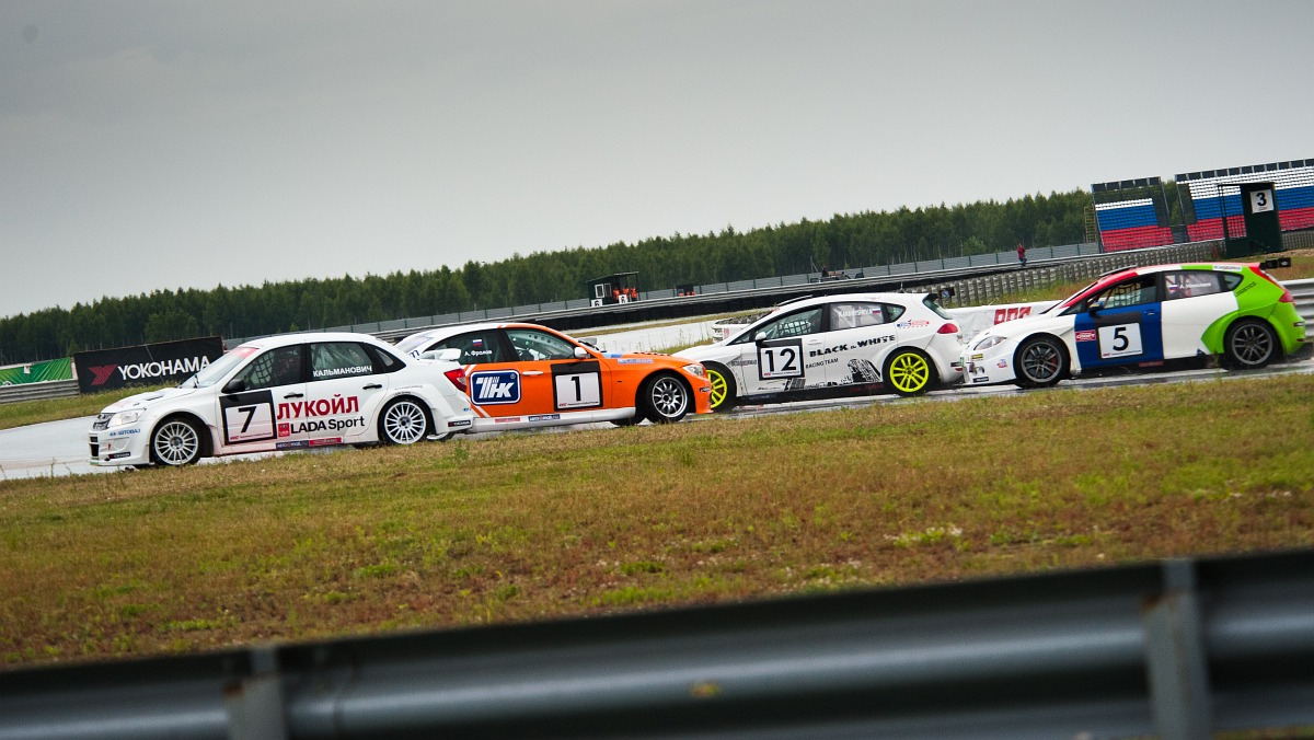 гонки